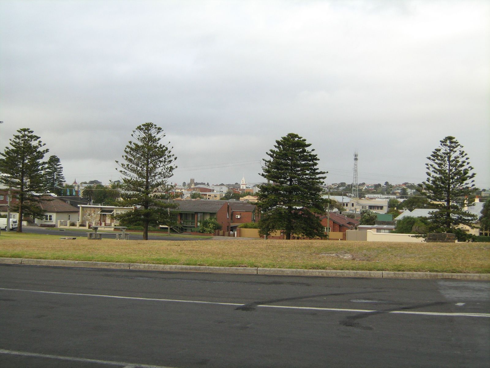 View over Warrnambool, Victoria.